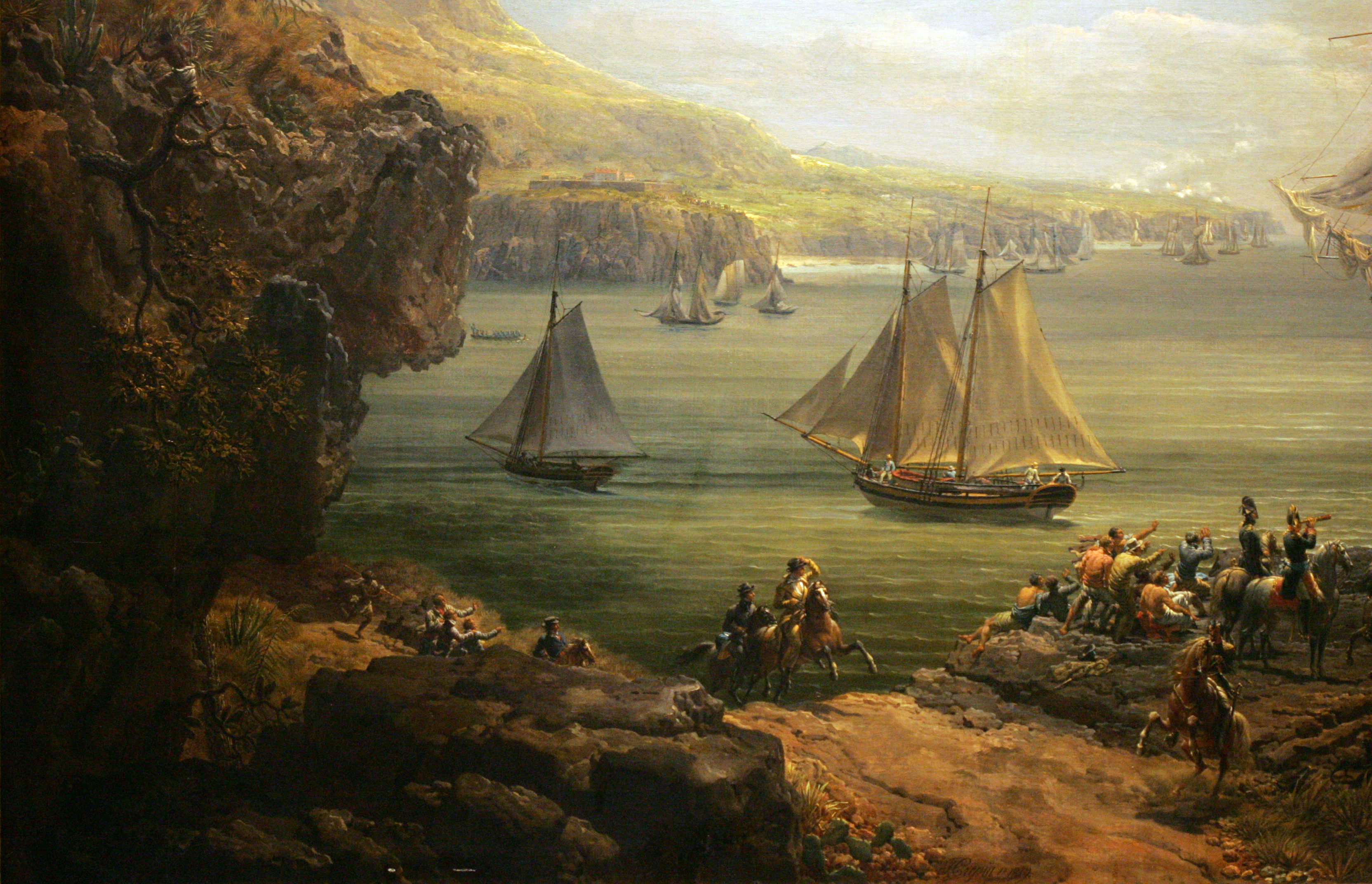 Fight of the Poursuivante against the British ship Hercules, 28 June 1803